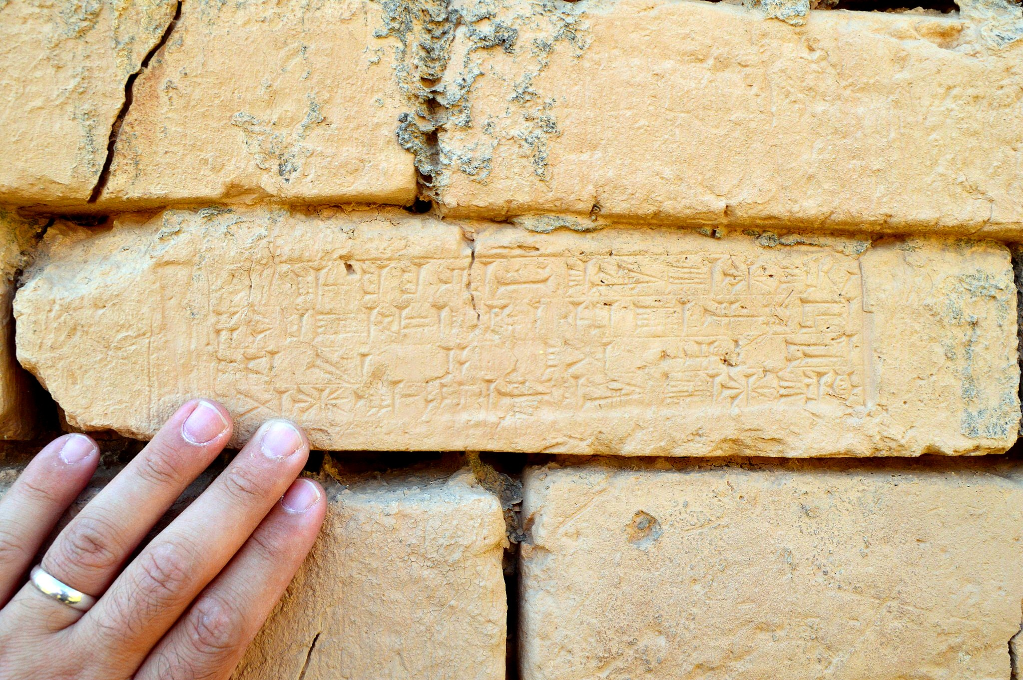 This mud-brick was stamped with a cuneiform text mentioning the name of the builder, the neo-Babylonian king Nebuchadnezzar II. The procession street at Babylon, Mesopotamia, Iraq, 6th century BC.